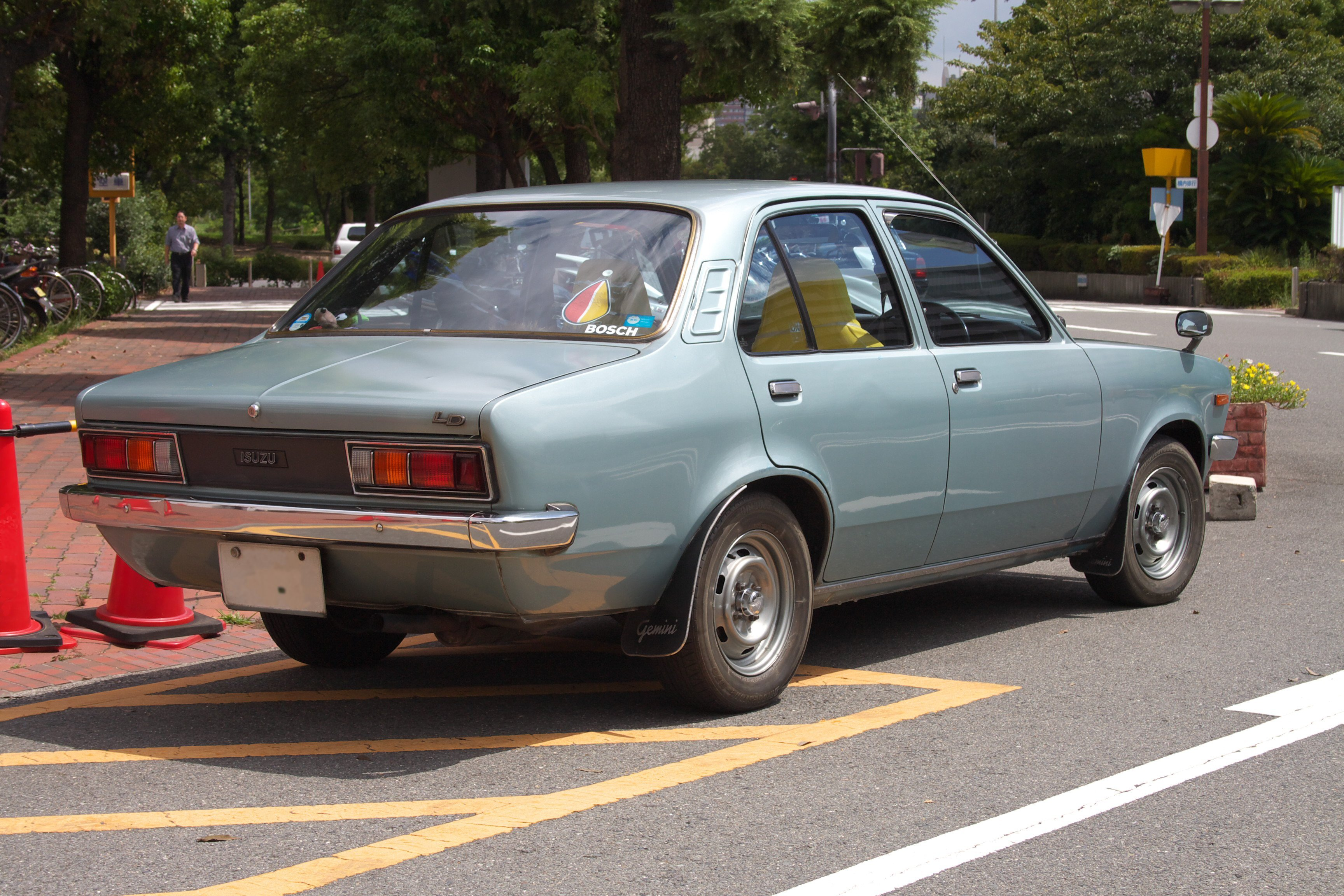 Isuzu Gemini?, photographed in Osaka City,Japan.